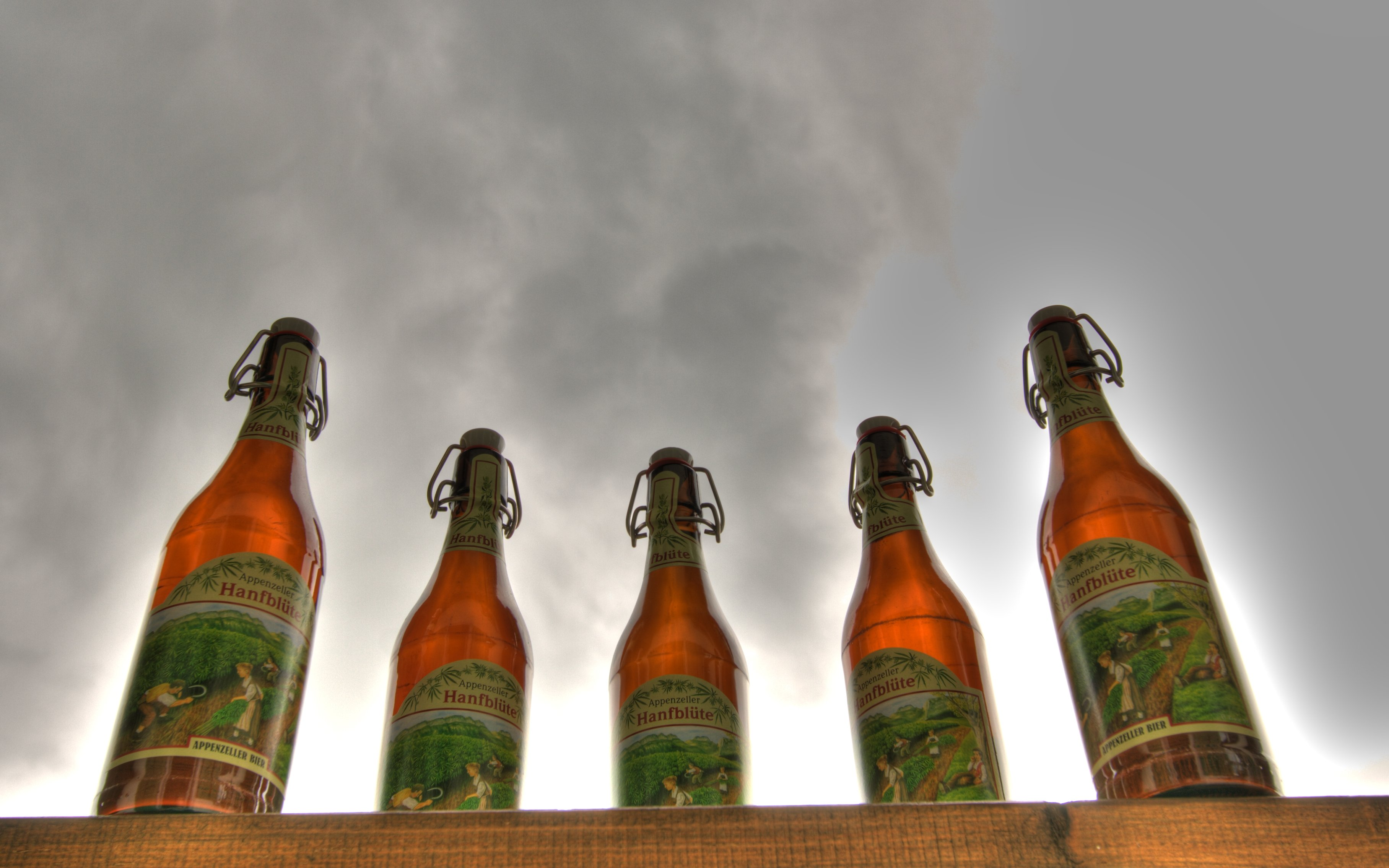 Bottles of hemp beer. Uses hemp blossoms.